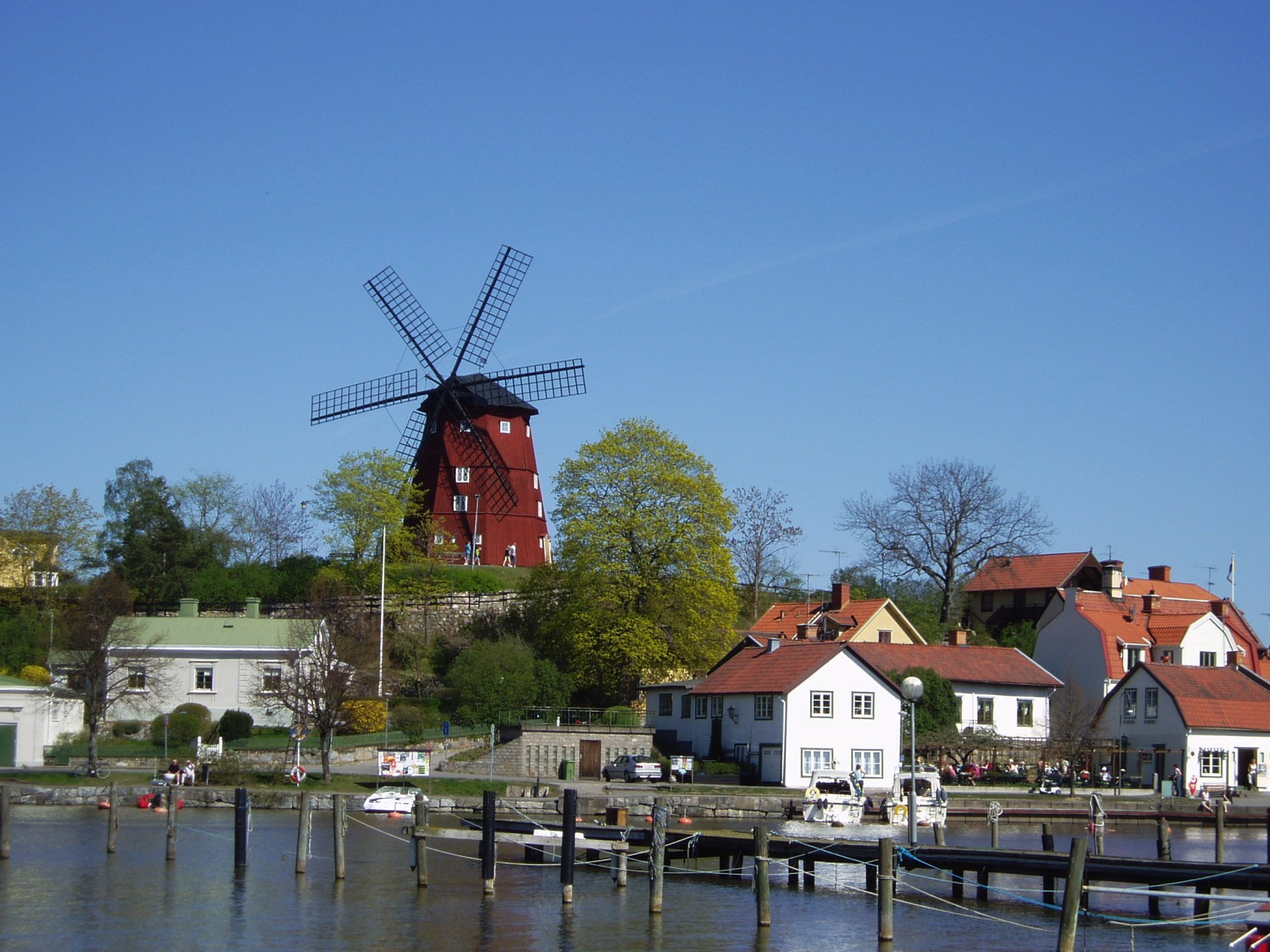 harbour and windmill, Strängnäs, Sweden